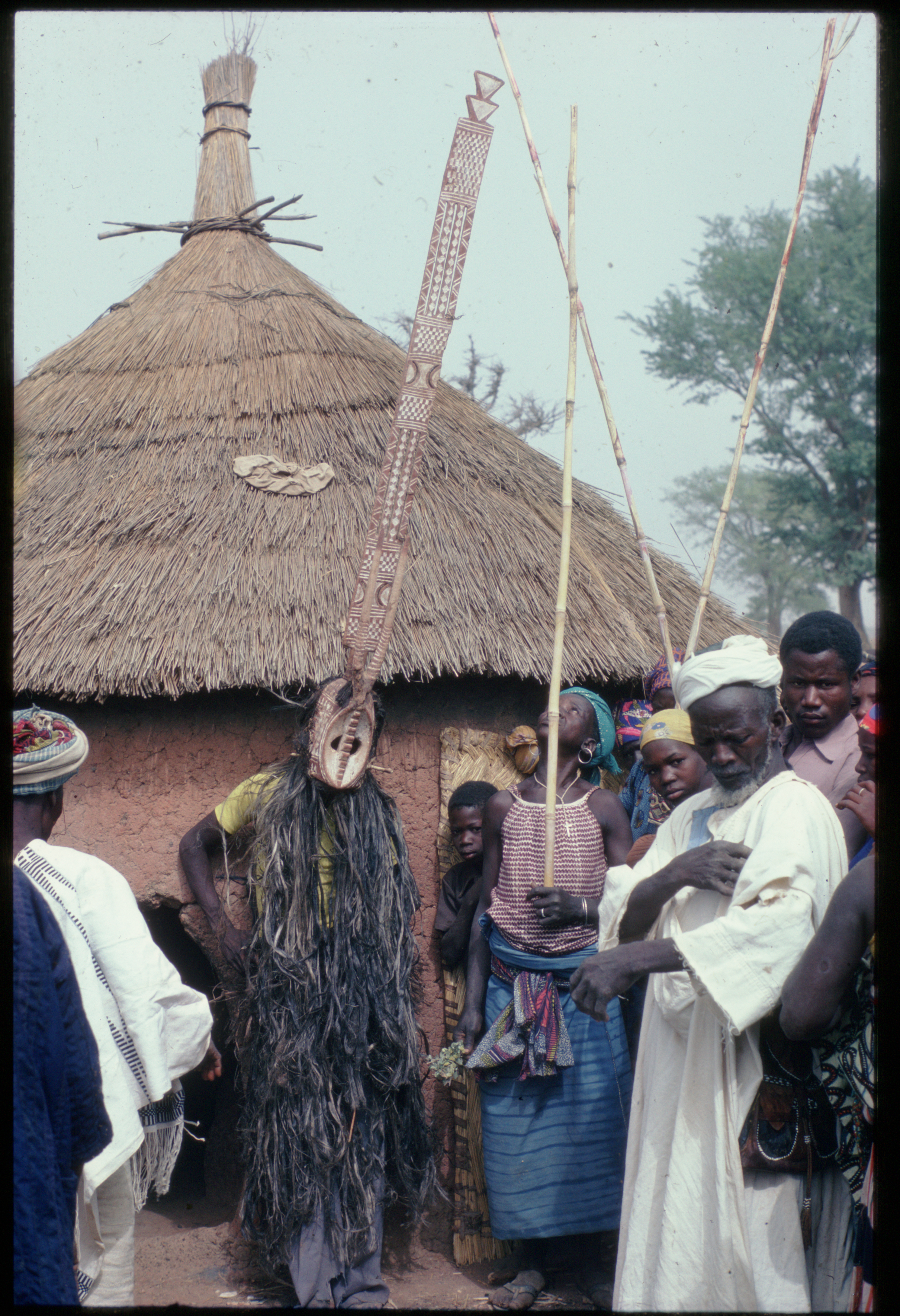 A Mossi mask in the style of Yatenga at a funeral in the village of Kirsi. The woman to the right holding a millet stalk is a joking relative.